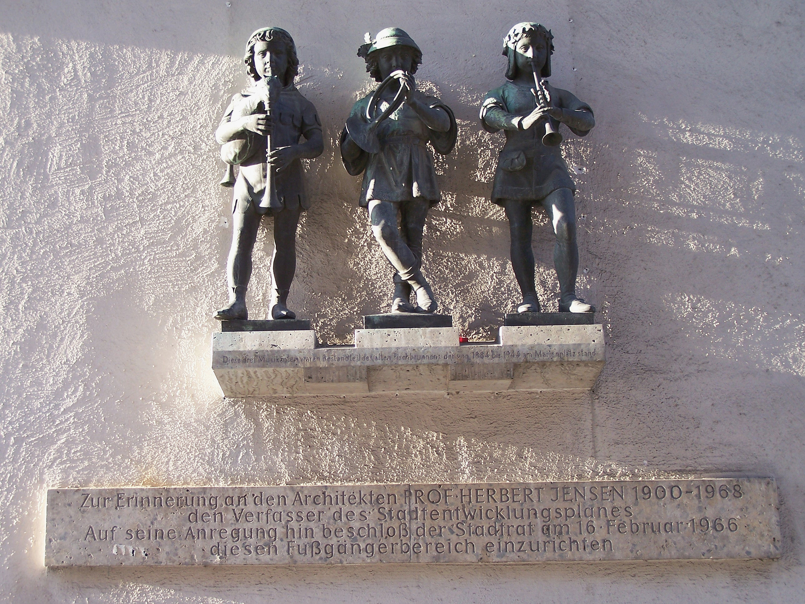 Group of figures at the northern side of the Karlstor in Munich, Germany